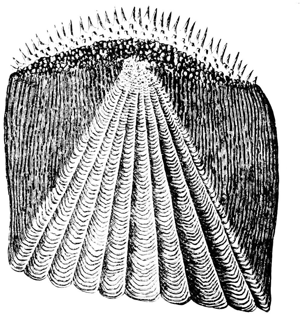 Scale of gudgeon